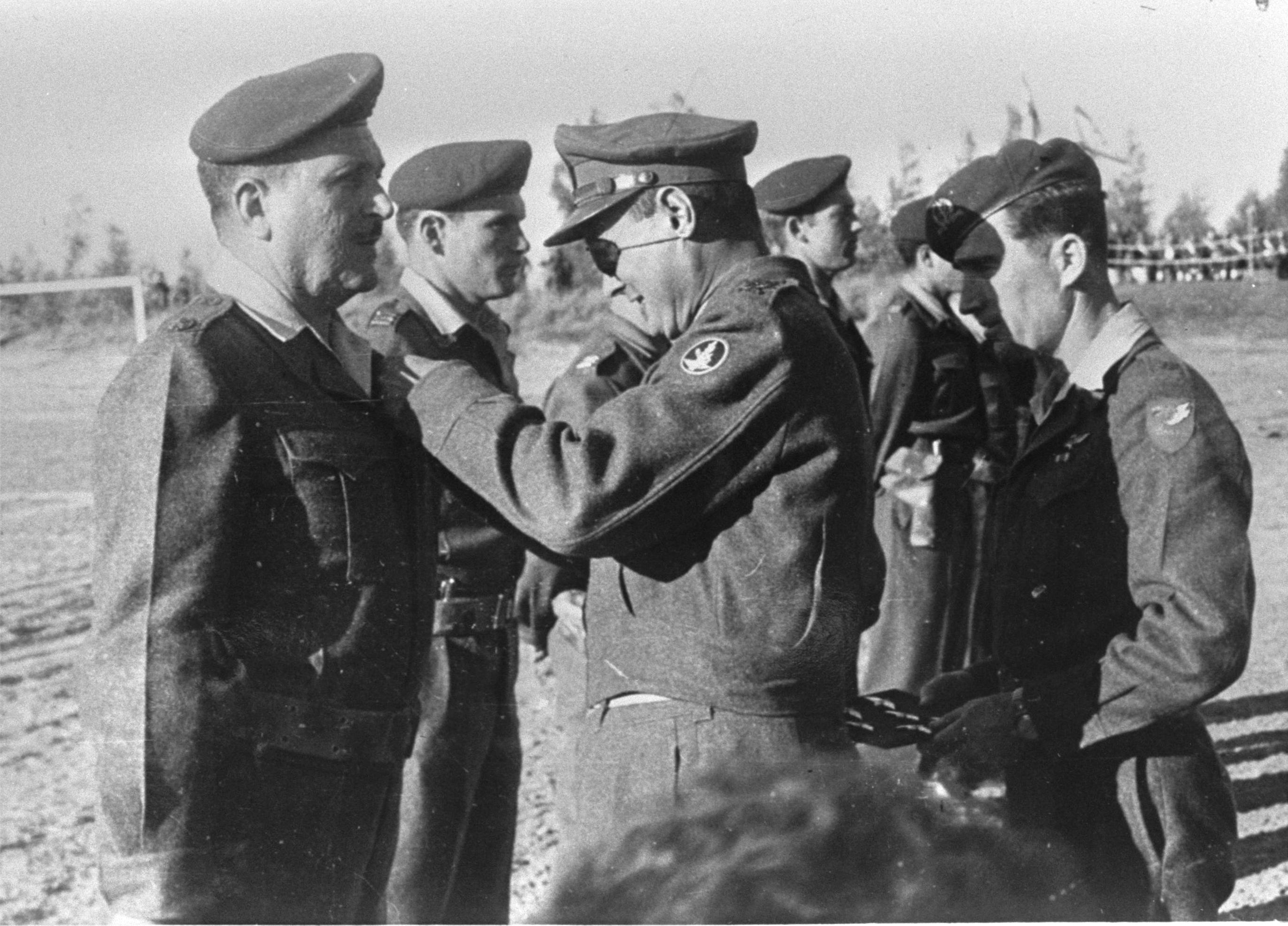 CHIEF OF STAFF MOSHE DAYAN BINDING RED BACKGROUND ON PARACHUTING WINGS OF PARATROOPERS WHO WERE IN THE MITLE DURING THE SINAI CAMPAIGN.